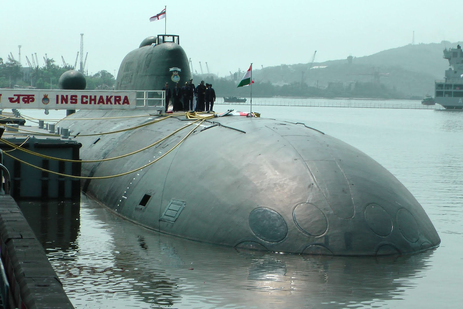 Ajai Shukla: The INS Chakra, photographed by me, just minutes before it was inducted into the eastern fleet at Vishakhapatnam on 4th April 12